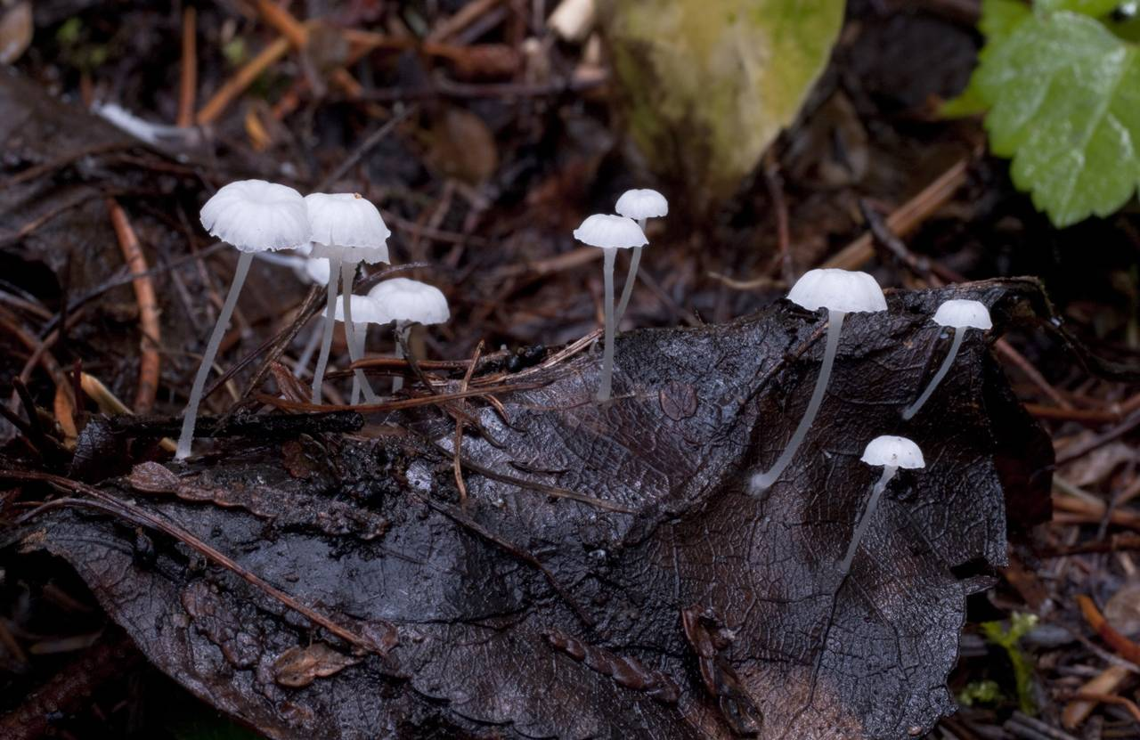 Fruit bodies of the fungus Hemimycena pseudocrispula (Kühner) Singer. Specimens photographed in Slate Creek Trail #525, Colville National Forest, Washington, USA.